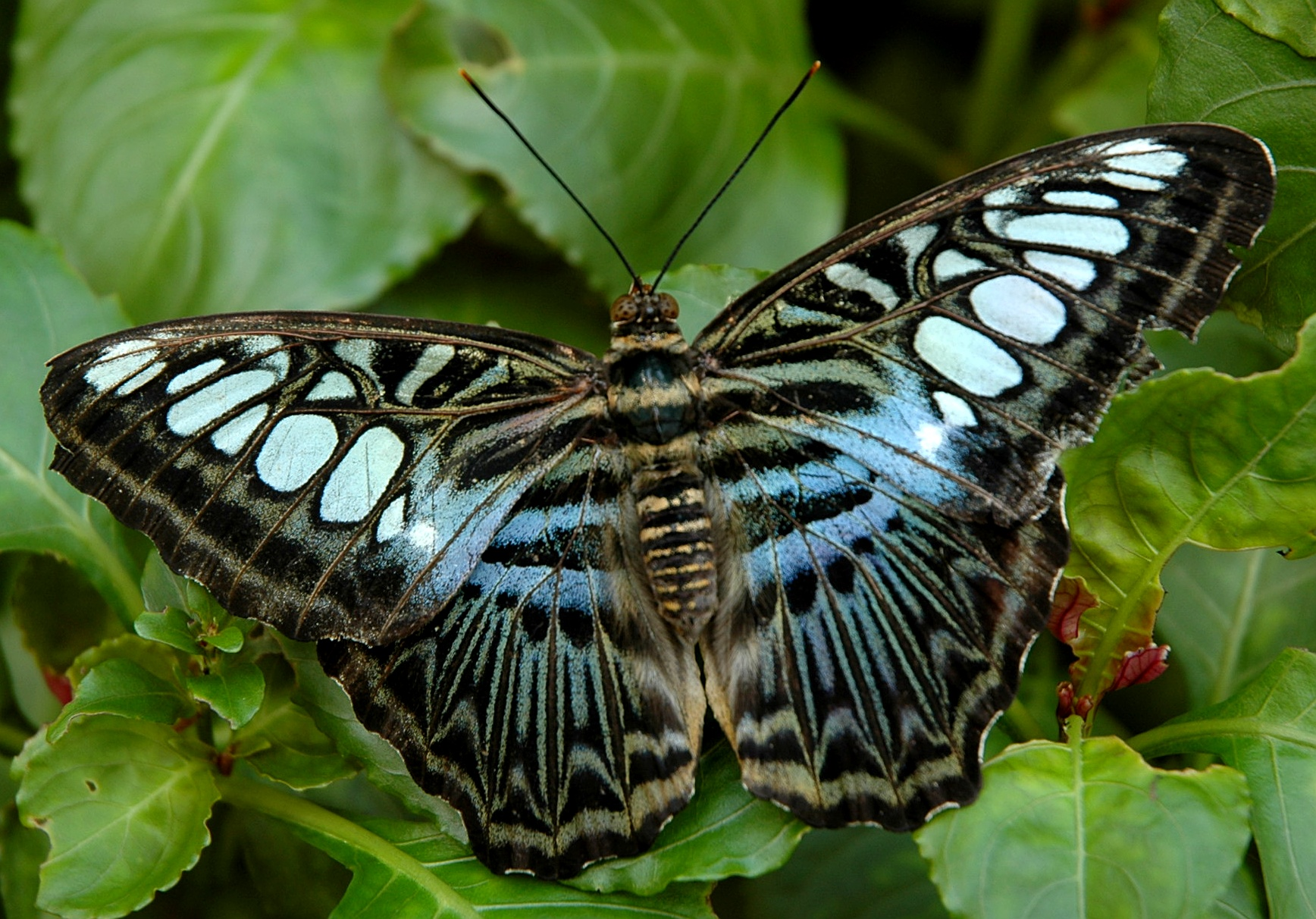 Blauer Helikon (Parthenos sylvia) Source: Marcel Burkhard